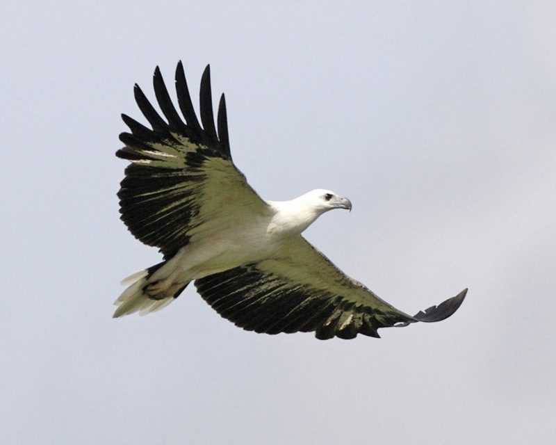 White-bellied Fish-Eagle - Sub-adult Haliaeetus leucogaster 22nd February 2009 Location: Lower Pierce Reservoir, Singapore Local name: Helang, Helang Siput, 白腹海雕 To compare adult plumage To compare immature/ juvenile plumage Distribution: 690V2735